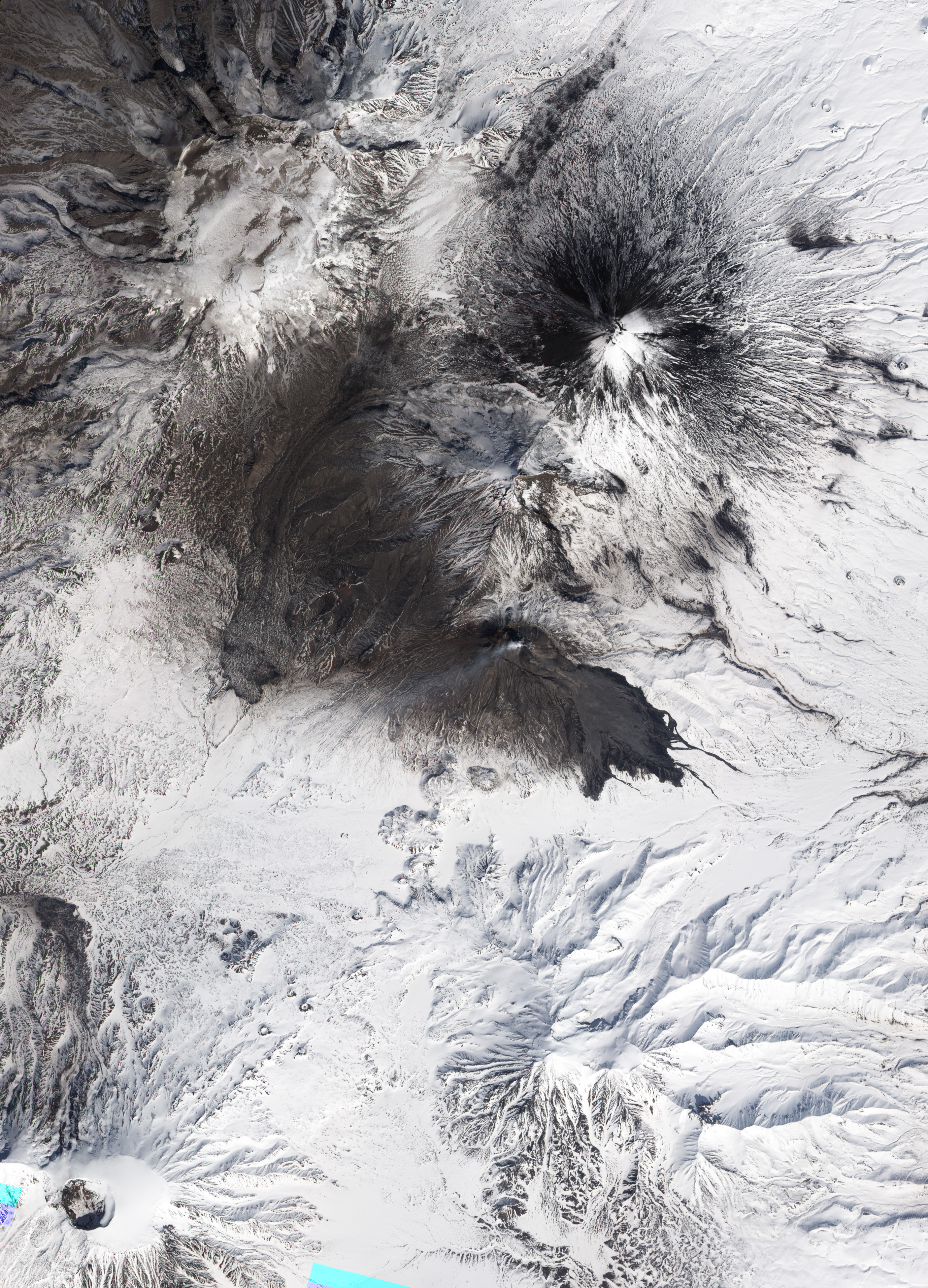 Natural-colour satellite image showing evidence of an eruption at Bezymianny Volcano. Dark volcanic deposits (likely a combination of pyroclastic flows and lahars) extend more than 7.3 kilometres into valleys to the south-east. A light-coloured plume of ash, steam, and sulphur dioxide rises above Bezimianny’s summit and blows towards the west. Volcanic ash covers the upper slopes of the volcano, especially to the south and west. White snow, still deep in late April, blankets the surrounding landscape.